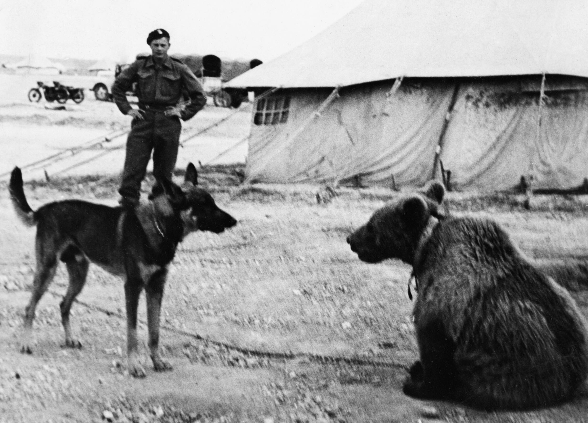 In the Middle East a soldier of the 22nd Transport Artillery Company (Army Service Corps, 2nd Polish Corps) watches as a dog warily eyes up an unusual recruit, Wojtek (Voytek) a Syrian bear. The bear was the unit's mascot.